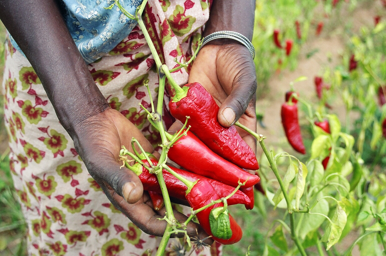 A farmer shows off her crop of paprika peppers in Mang'alali village, Iranga region. USAID helps farmers to improve their yields and get better prices for their crops in Tanzania.